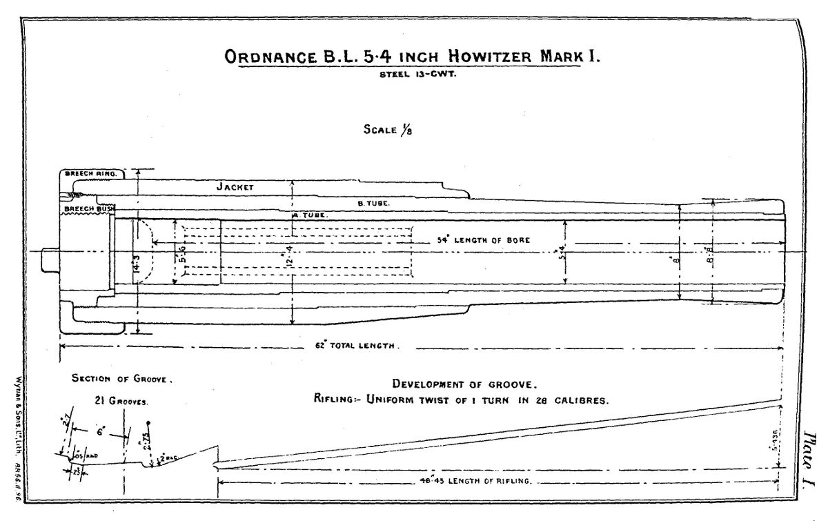 Diagram depicting construction and dimensions of British BL 5.4 inch howitzer barrel.